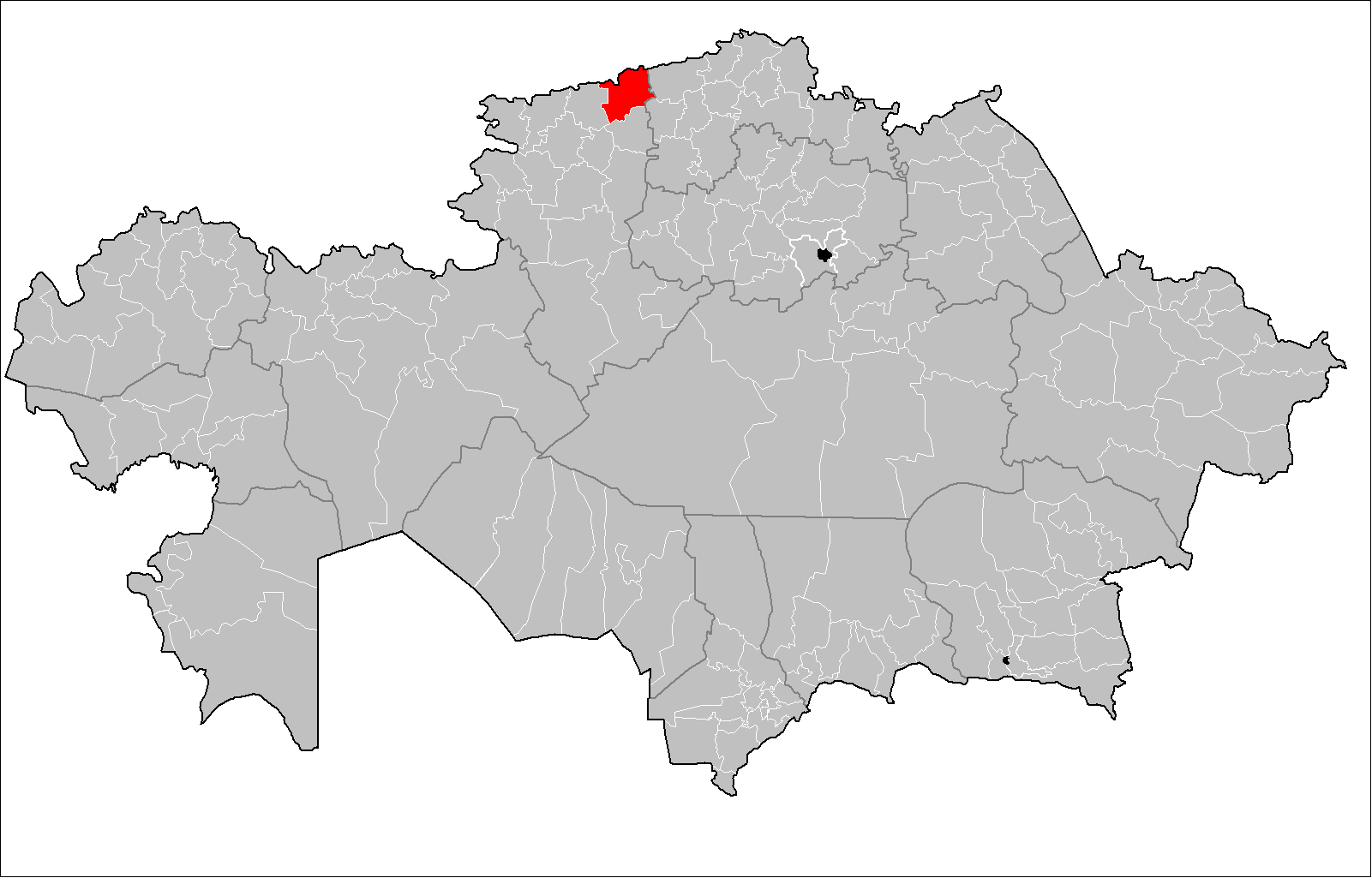 Map of the rayons of Kazakhstan. Created by Rarelibra 16:49, 3 August 2007 (UTC) for public domain use, using MapInfo Professional v8.5 and various mapping resources.